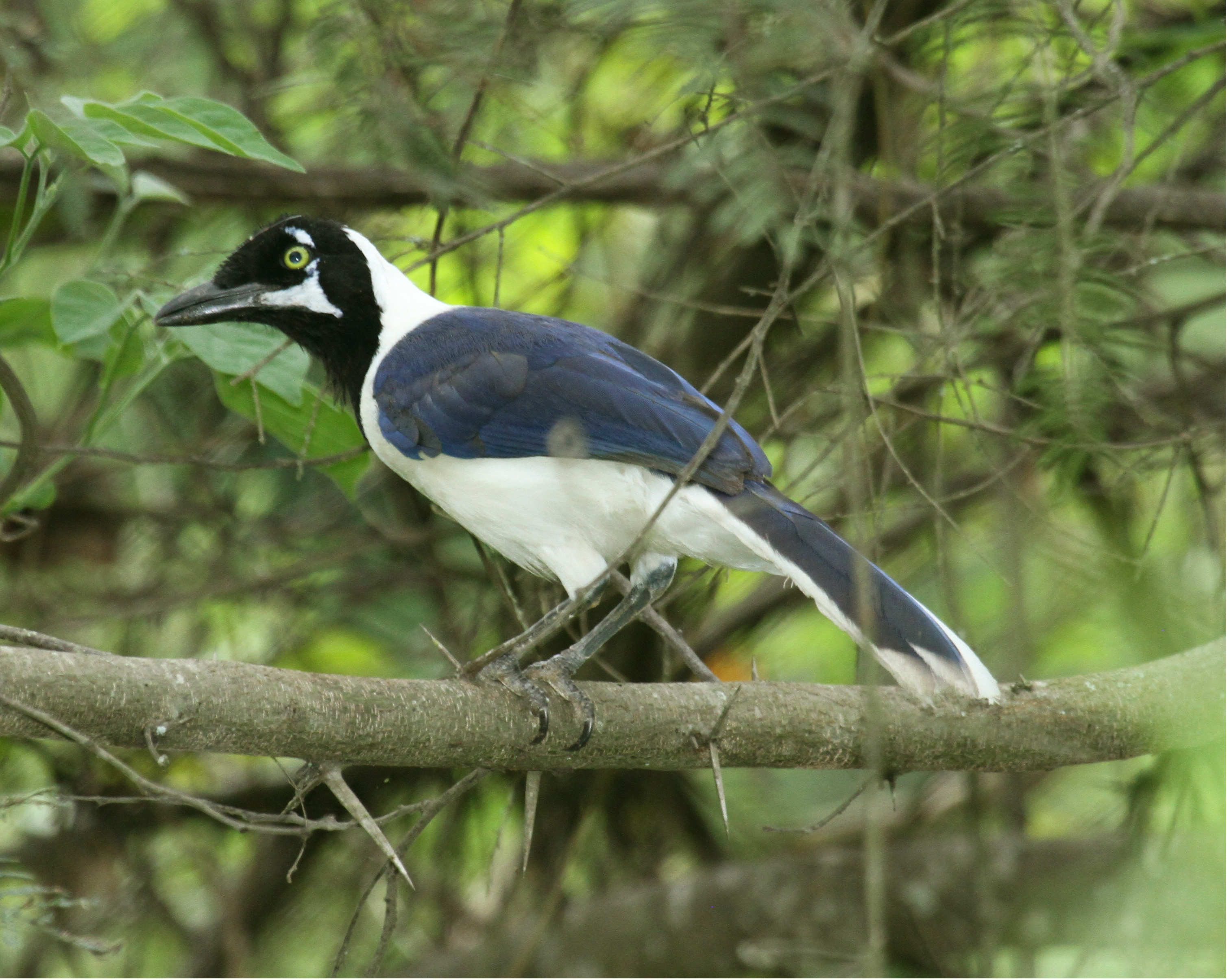 Jorupe Preserve - Ecuador